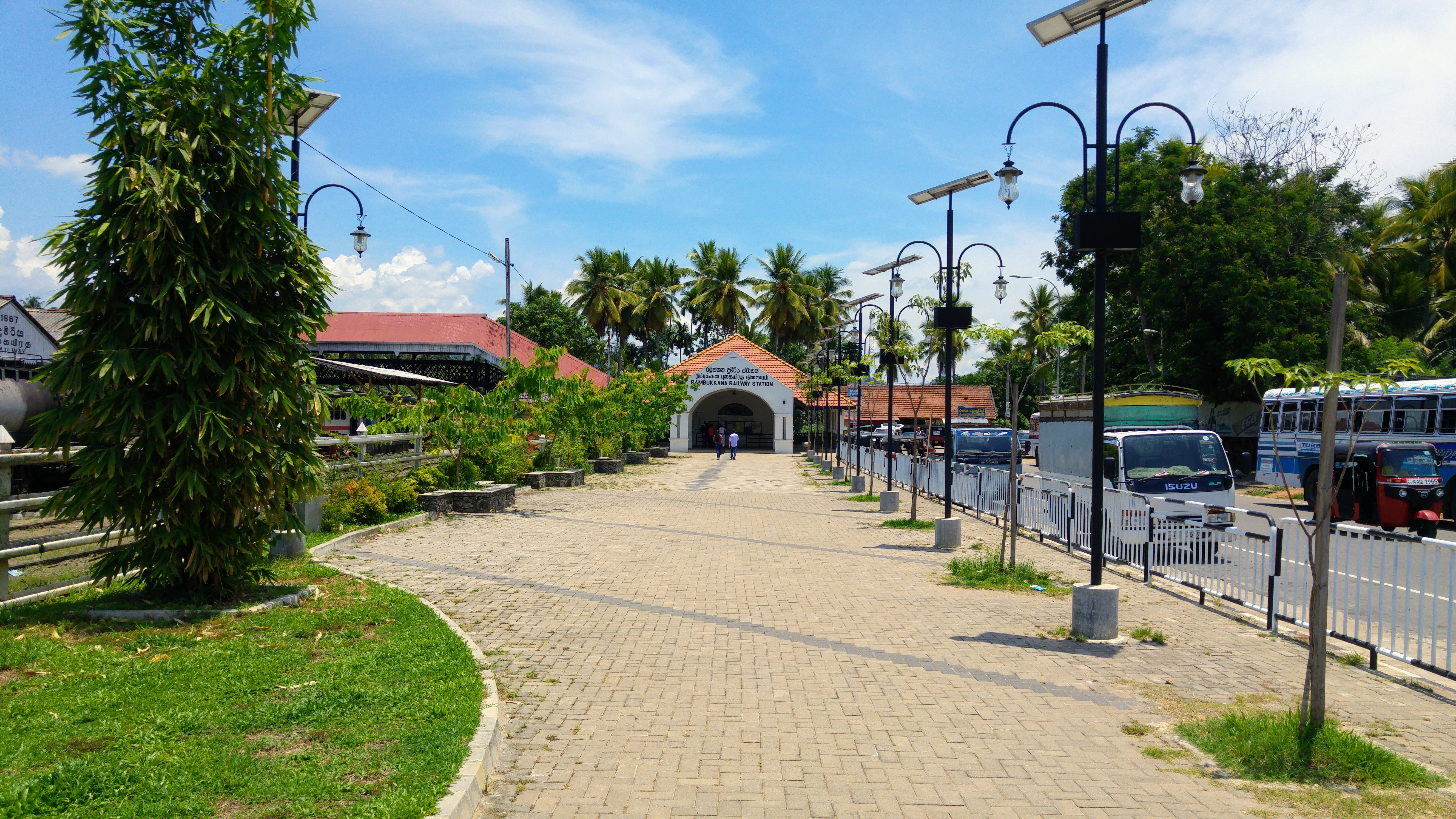 Rambukkana Railway Station view from the entrance an the side view of the Station Road/ Rambukkana Railway Bypass Road